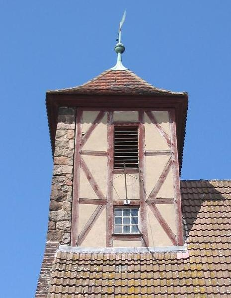 Church Kuhlowitz, built probably in 15th century. Kuhlowitz is an incorporated part of the town Belzig in Brandenburg, Germany.